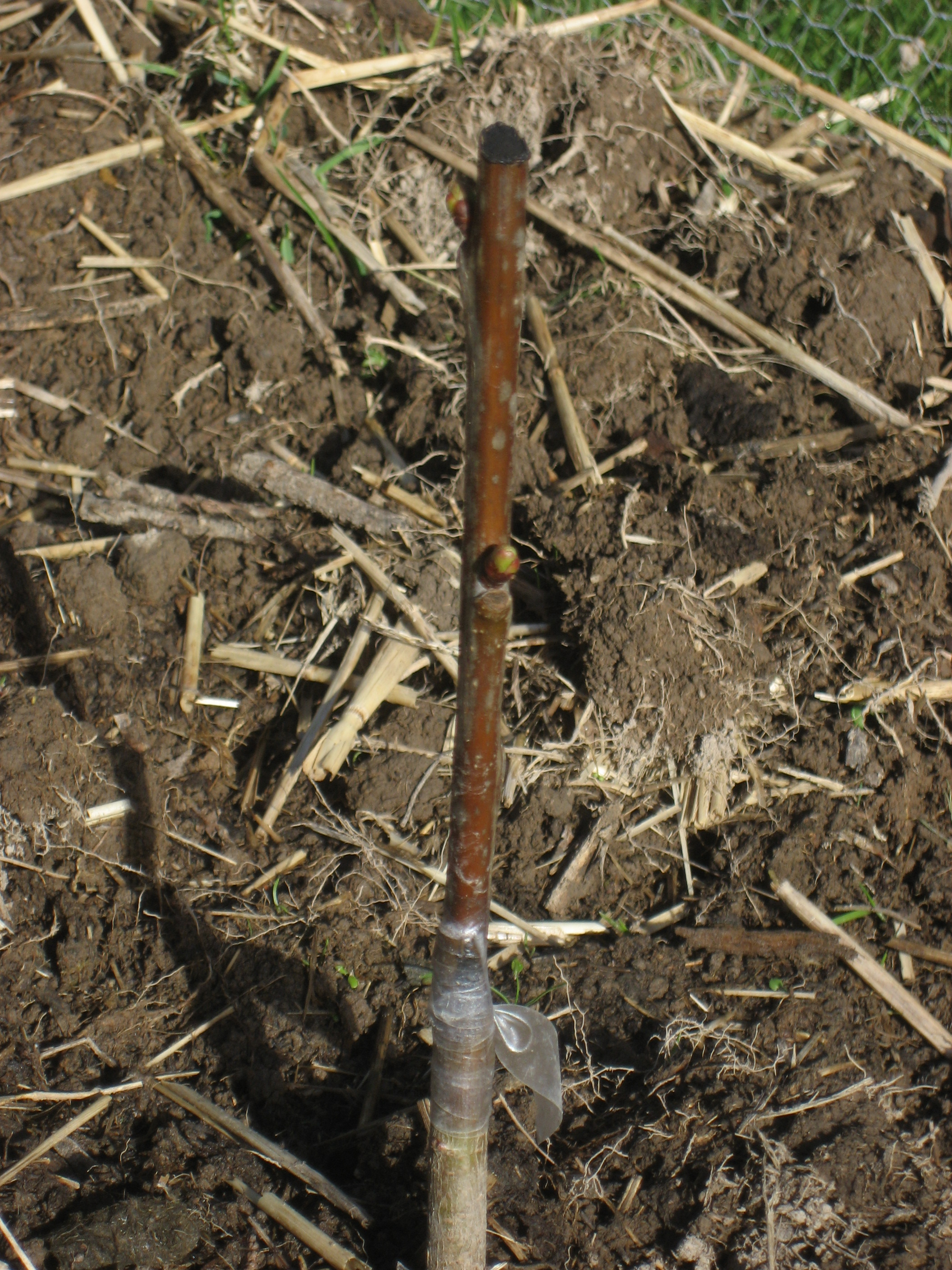 Photo of a recently grafted cherry root stock and scion